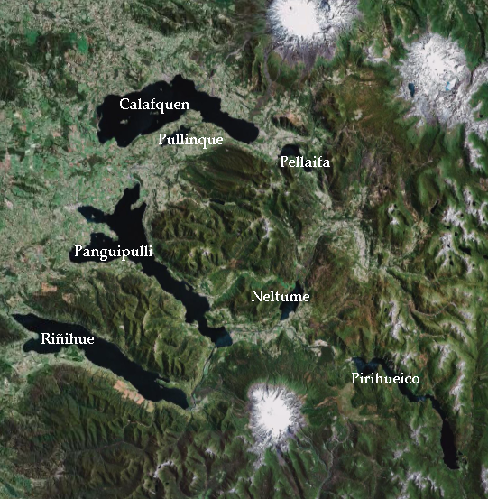 Modified clip from commons satellite composite of south America showing the Seven Lakes.